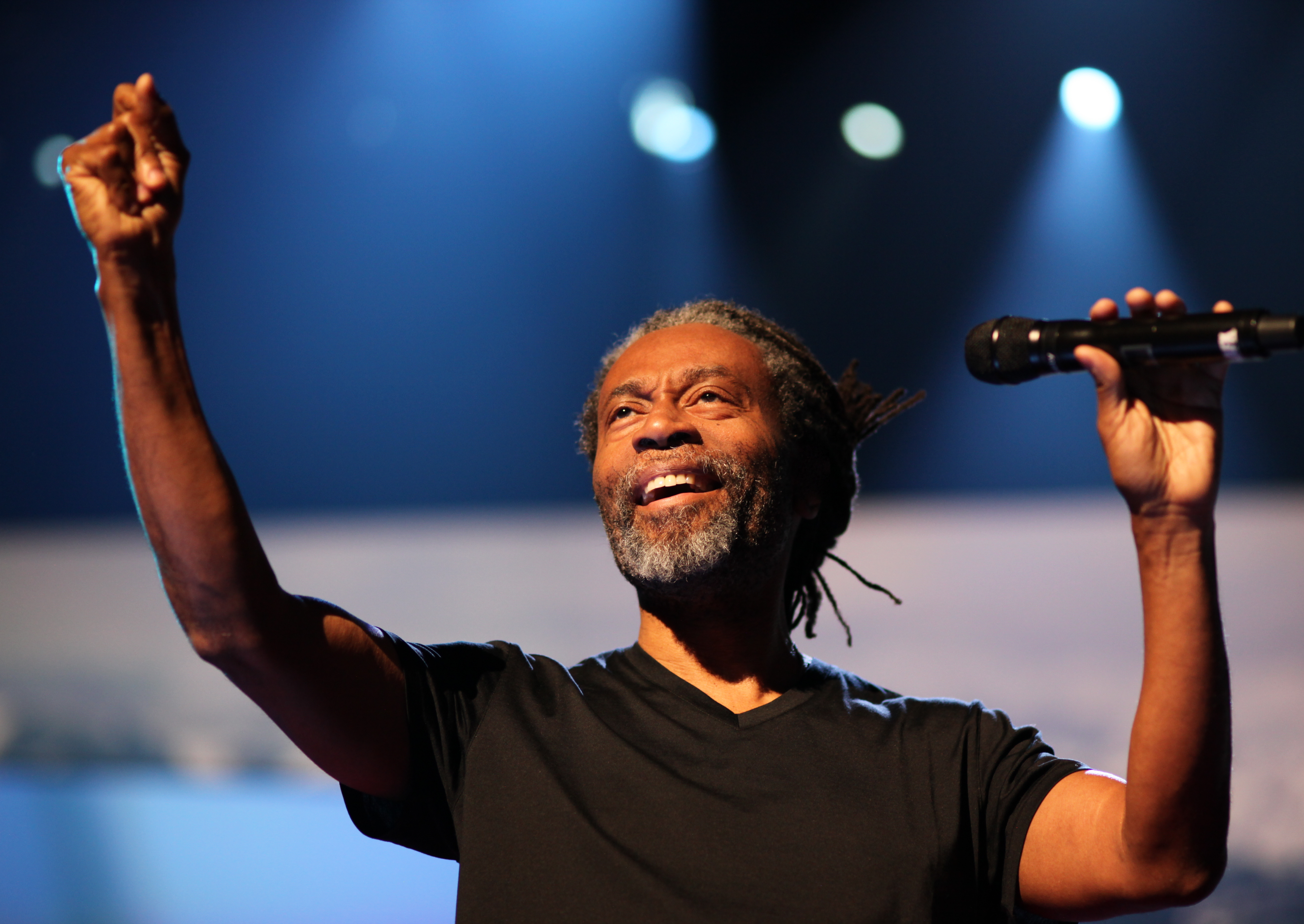 Bobby McFerrin performing at the February 28 - March 4, 2011 TED Conference.